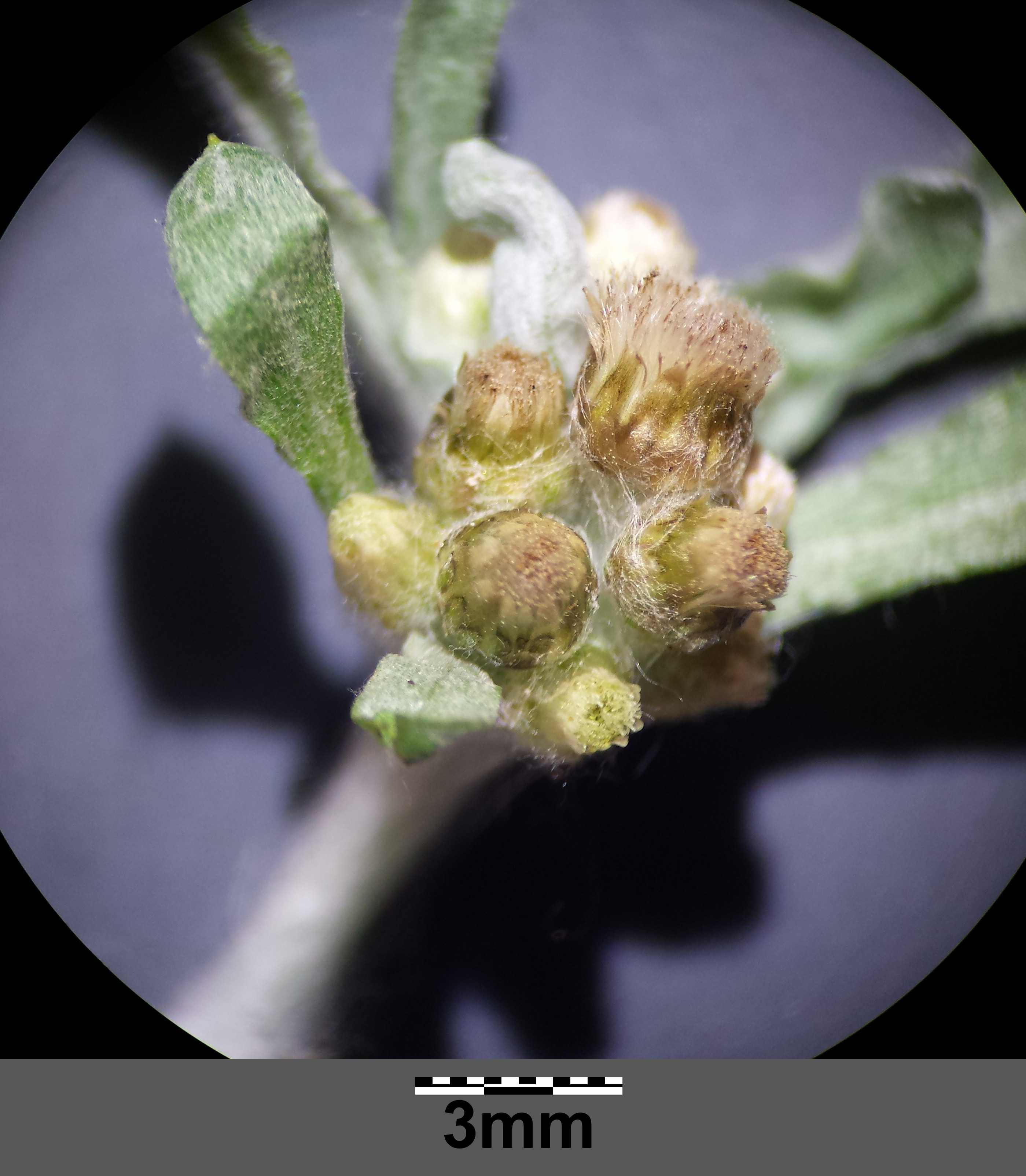 Inflorescence/infructescence Taxonym: Gnaphalium uliginosum ss Fischer et al. EfÖLS 2008 ISBN 978-3-85474-187-9 Location: near Komau, district Freistadt, Upper Austria - ca. 850 m a.s.l. Habitat: wet meadows